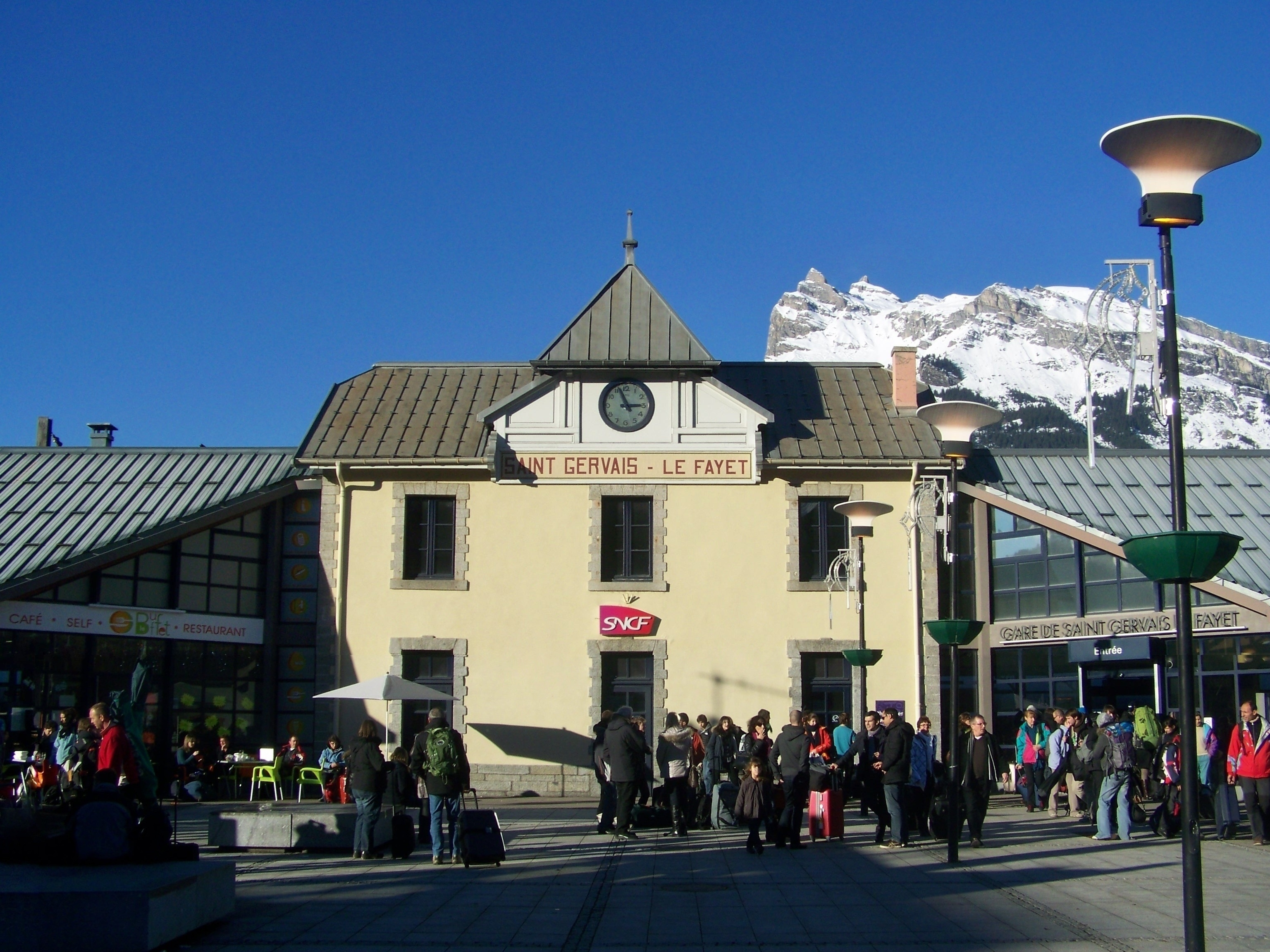 Sight of Saint-Gervais-les-Bains Le Fayet railway station in Haute-Savoie, France, full of vacationers on a Saturday of the end of December 2012.